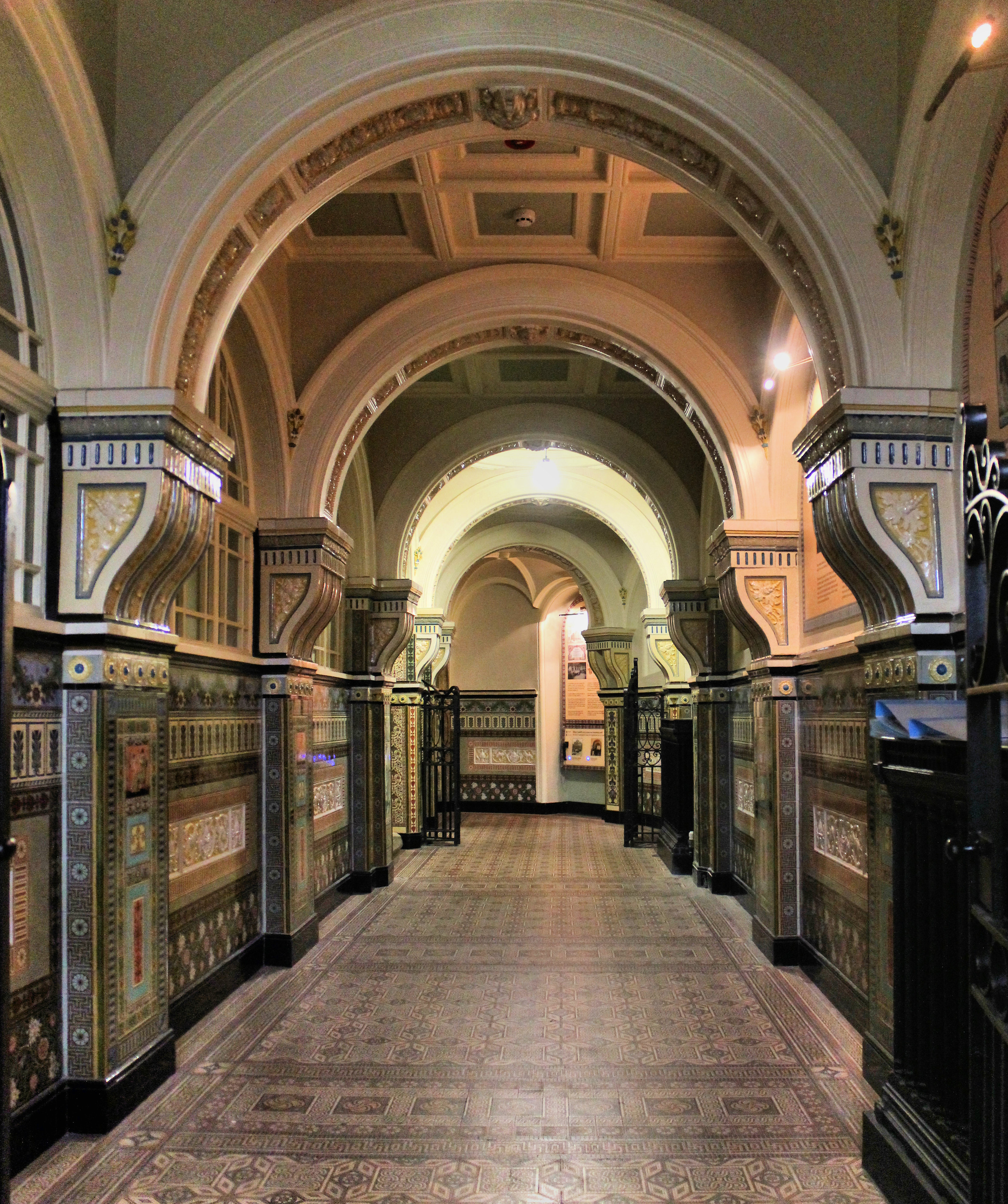 The Old Library (previously Cardiff Free Library), Cardidd, Wales. Grade II* listed building. Currently the location of the Cardiff Story museum and the city centre's main Tourist Information point. It is noted for its fine colonnaded exterior and original tiled entrance corridor